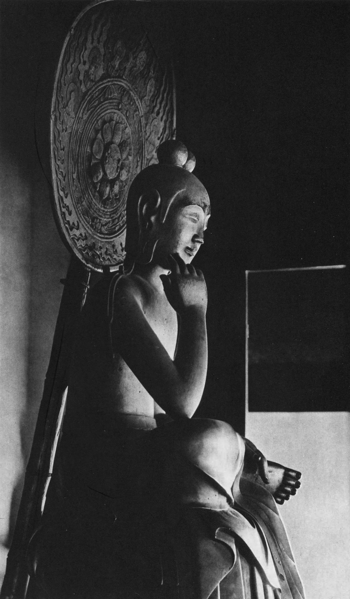 Bodhisatva,detail, Wood, Figure Height 123.5cm, about 7th century, Chuguji Temple, Nara, Japan